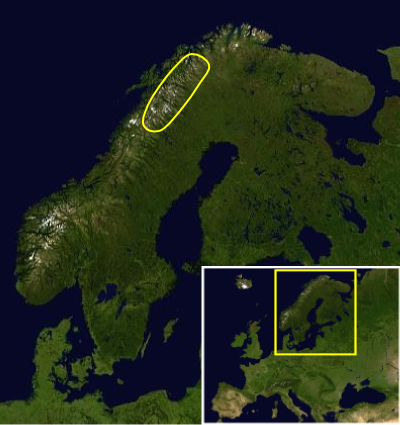 Distribution of Colias werdandi based on: L. G. Higgins, N. D. Riley: Die Tagfalter Europas und Nordwestafrikas. Verlag Paul Parey, Hamburg und Berlin 1978, ISBN 3-490-01918-0. Otakar Kudrna: The distribution atlas of European butterflies. In: oedippus. 20, Apollo Books, Stenstrup Danmark 2002, ISBN 87-88757-56-0